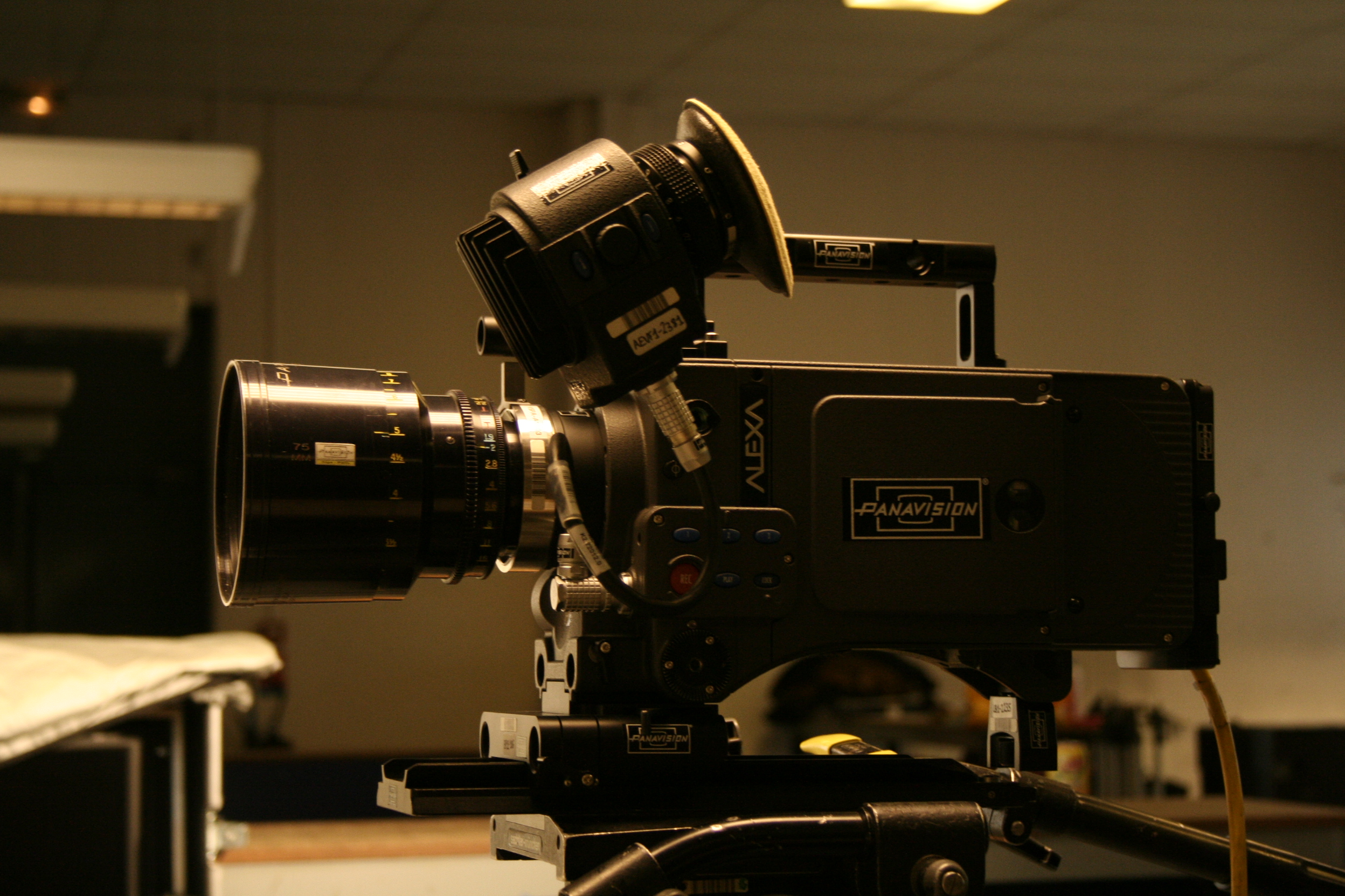 Side view of digital camera Alexa EV from german maker Arri.